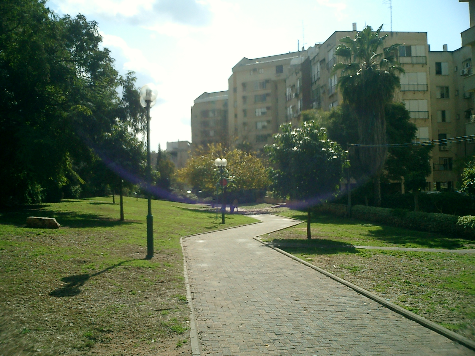 Houtacker Avenue in Hod Hasharon, Israel.